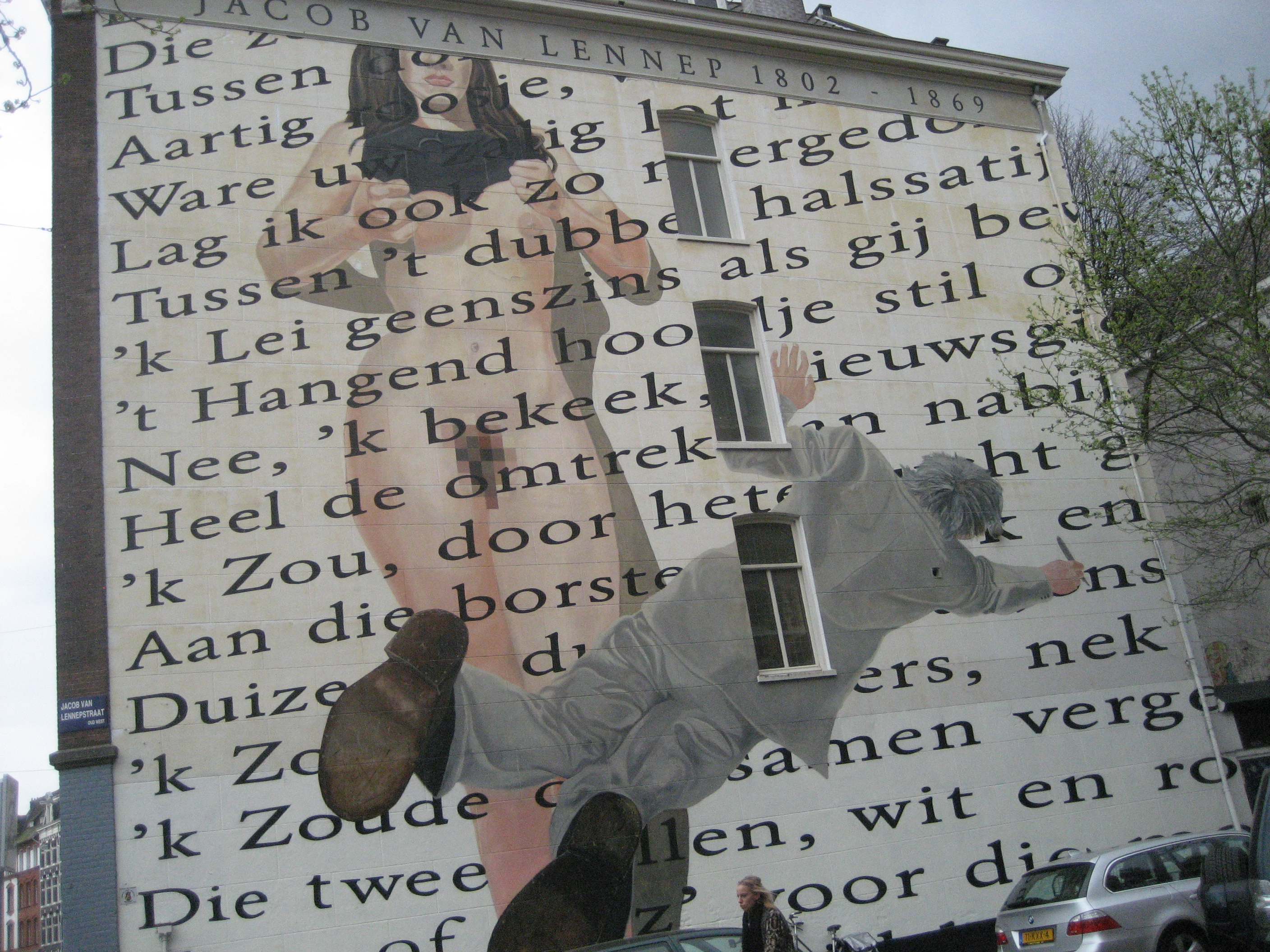 Wall poem Aan een Roosje (To a Rosie) by Jacob van Lennep (1802-1868). Location: Jacob van Lennepstraat / Nassaukade, Amsterdam (The Netherlands). Complete text of the poem by Van Lennep can be found here Artist: Rombout Oomen, painted in 2004. Pixelization of the pubic hair of the woman was done by the artist himself, in October 2004.